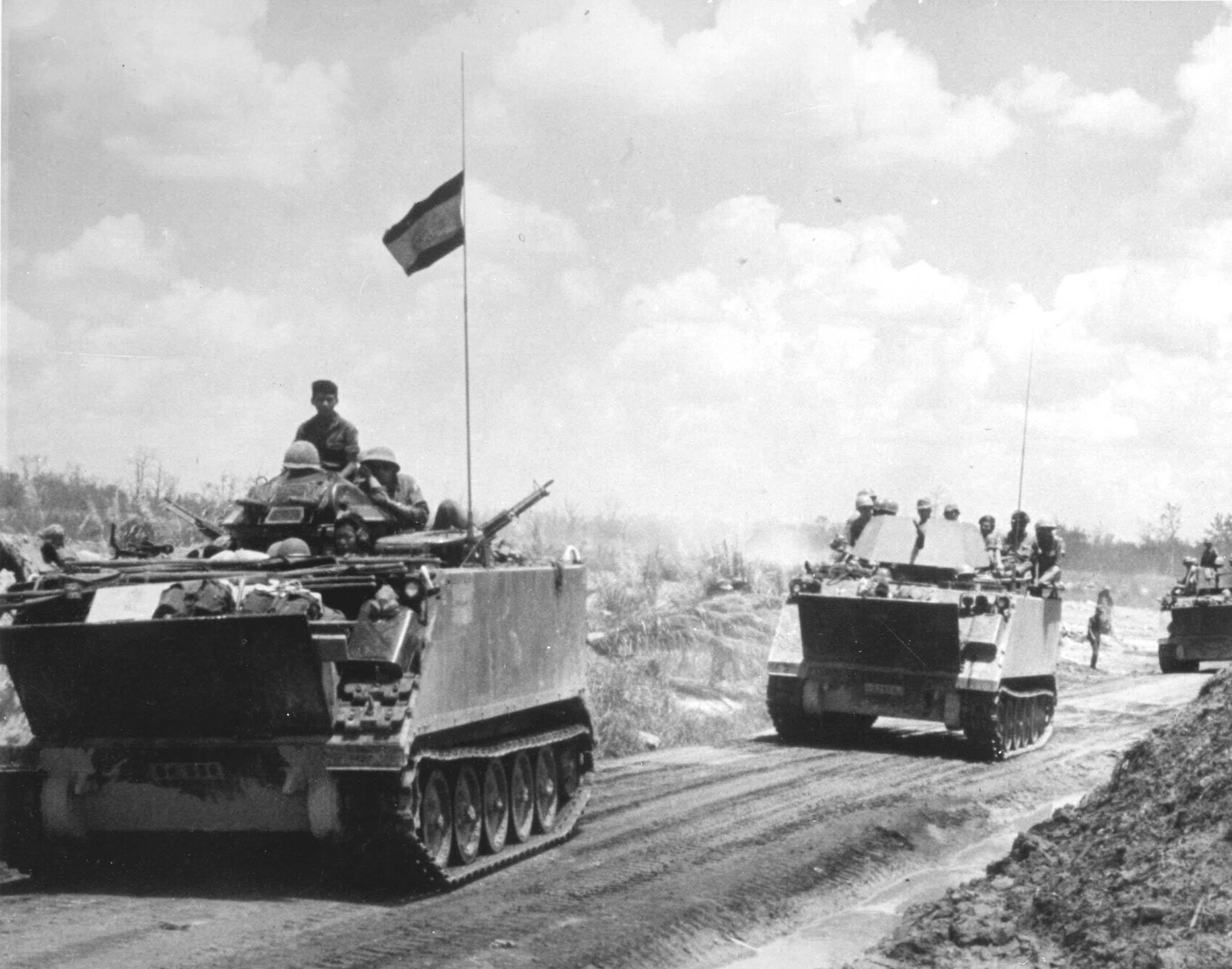 South Vietnamese Armor In Cambodia.